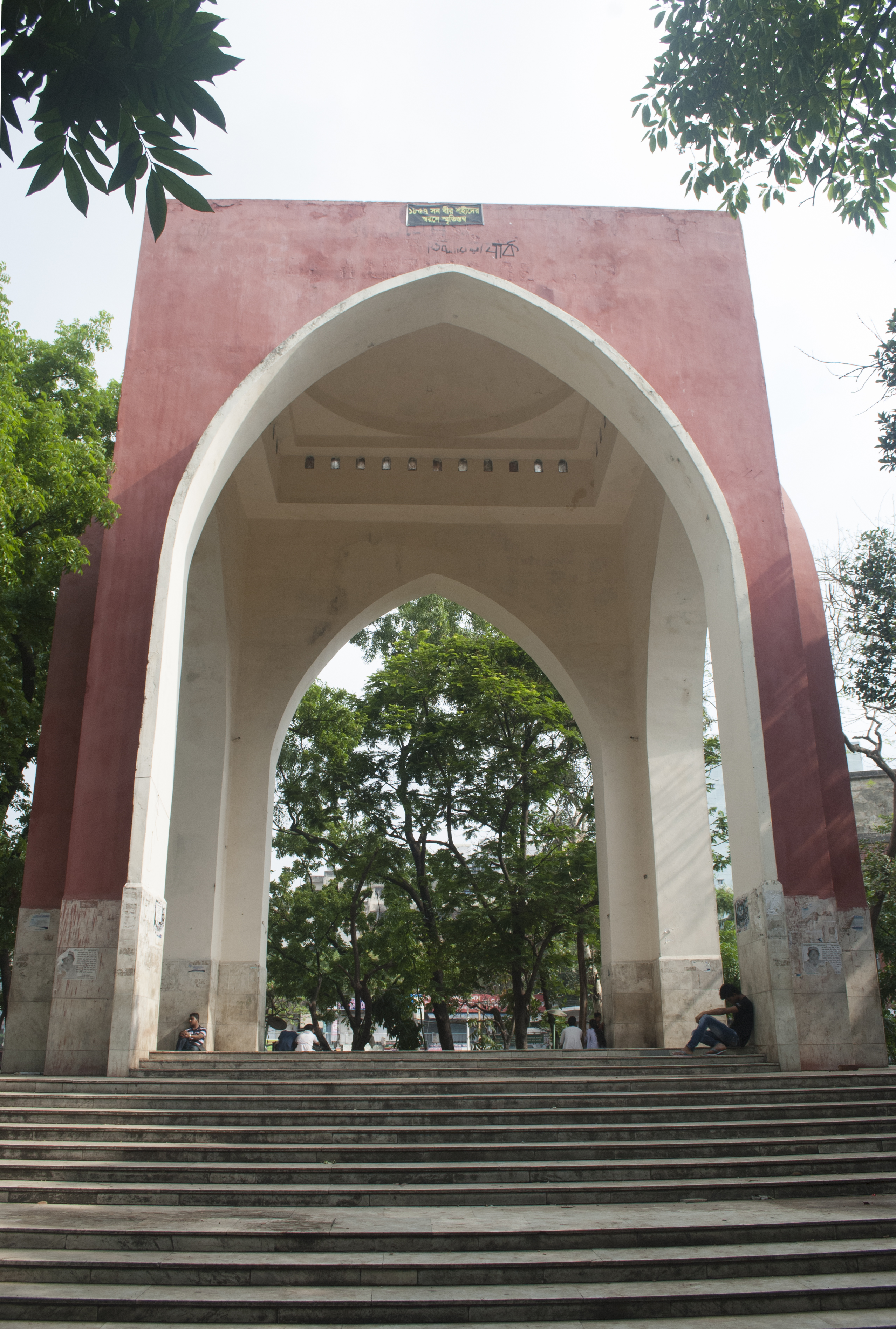 Previously known as Victoria Park.